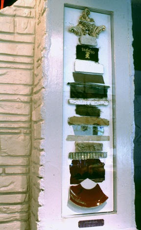 El Internacional Tapas Bar & Restaurant, art project led by Antoni Miralda and Montse Guillén during 1980s in TriBeCa, NY